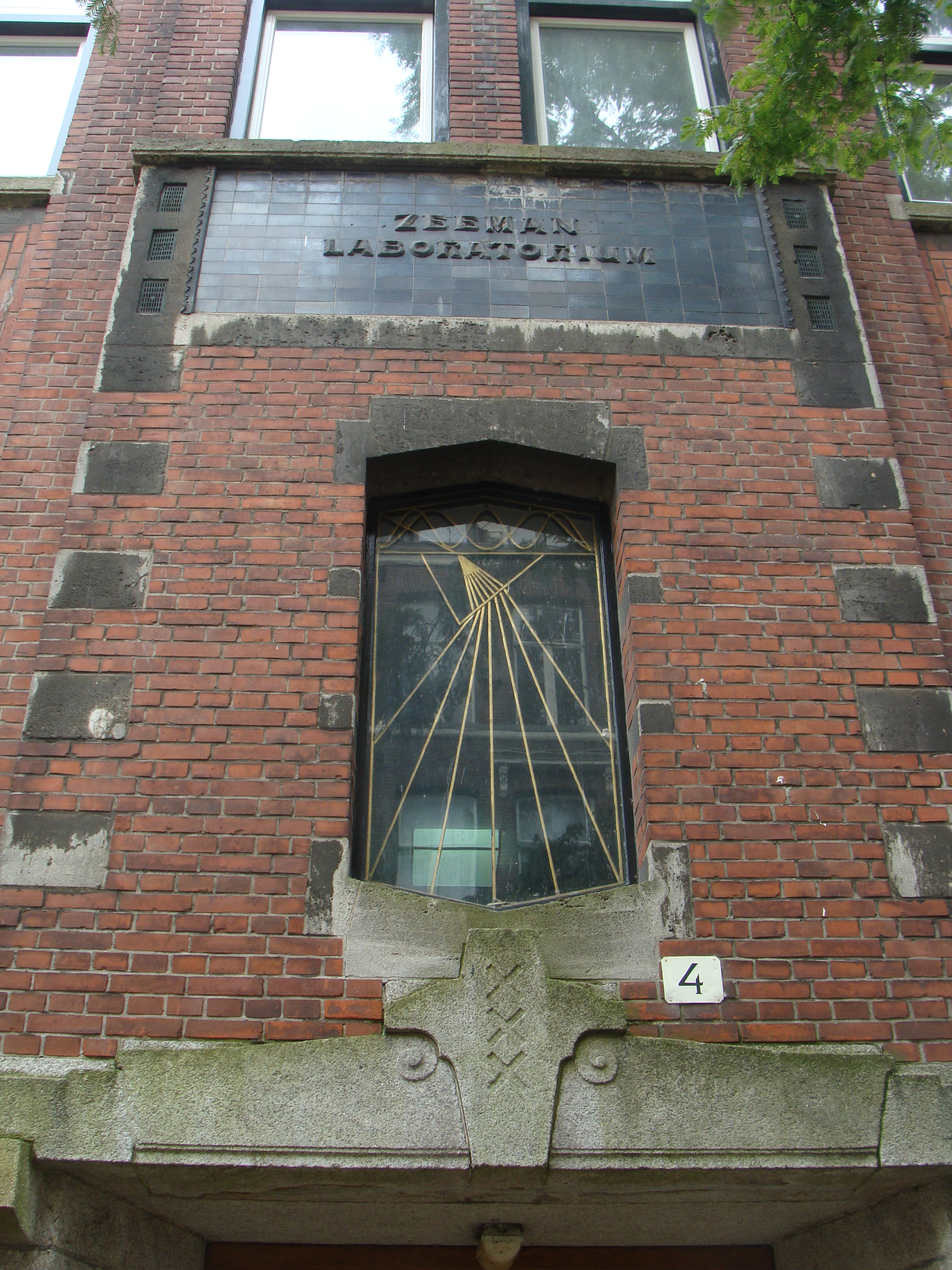 Decorations on the entrance of the former Zeeman Laboratory on Plantage Muidergracht in Amsterdam. A tile tableau and a decorative window with a stylized rendering of a light wave and a light beam with prism.